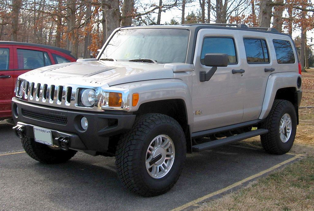 2005-2007 Hummer H3 photographed in USA.